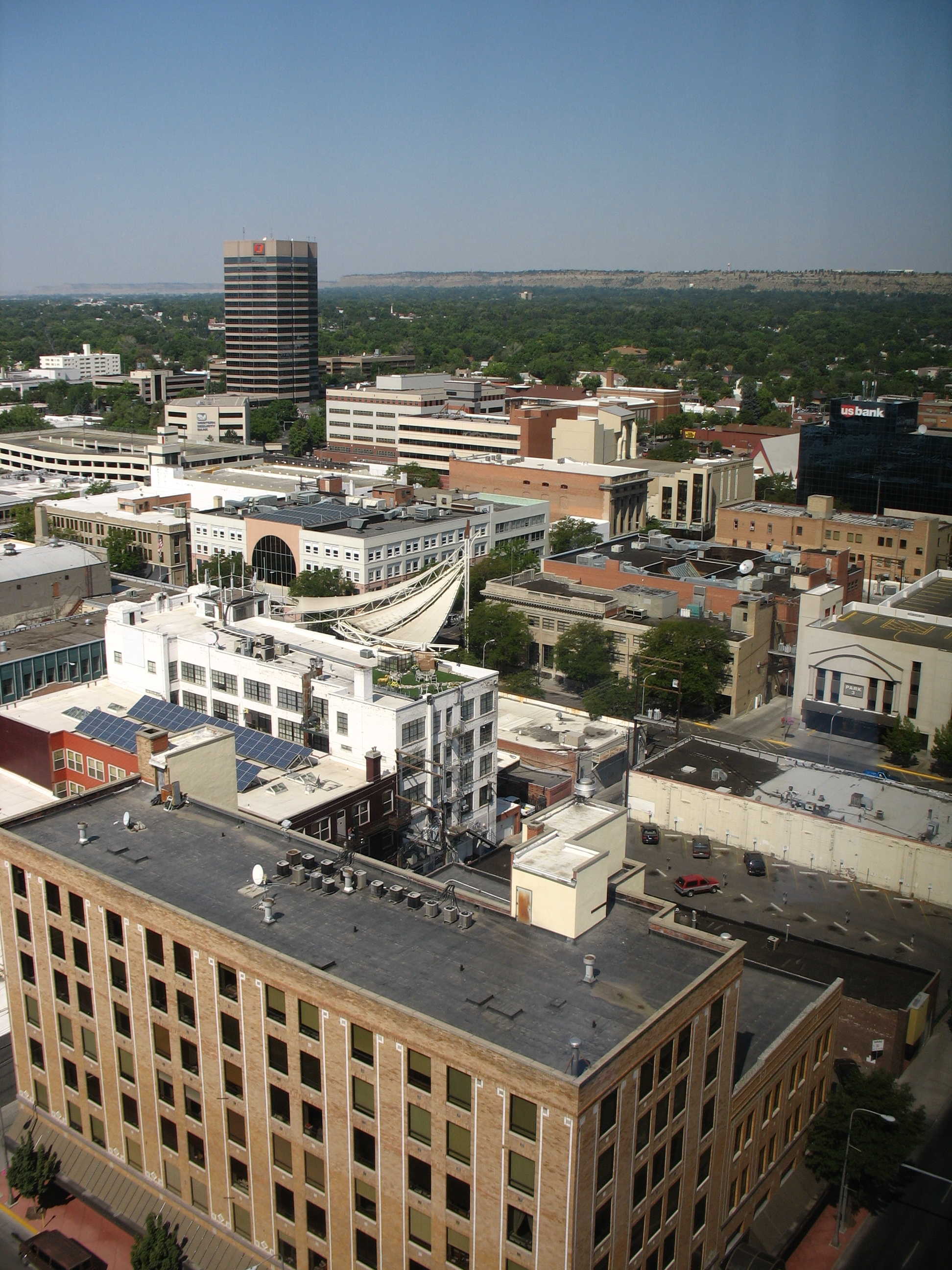 Overlooking downtown of Billings, Montana, USA